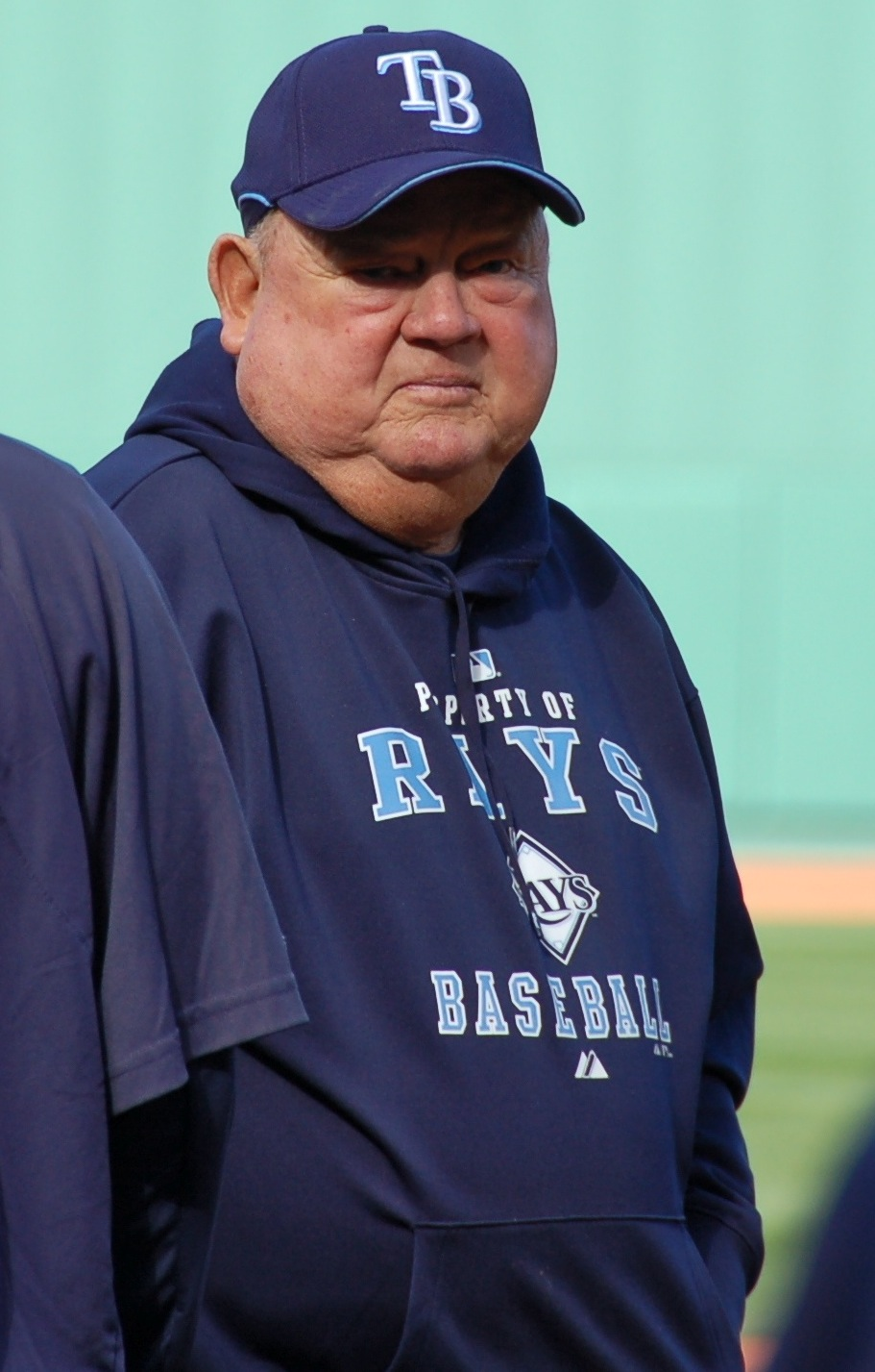 Tampa Bay Rays senior advisor Don Zimmer at Fenway Park in 2009.